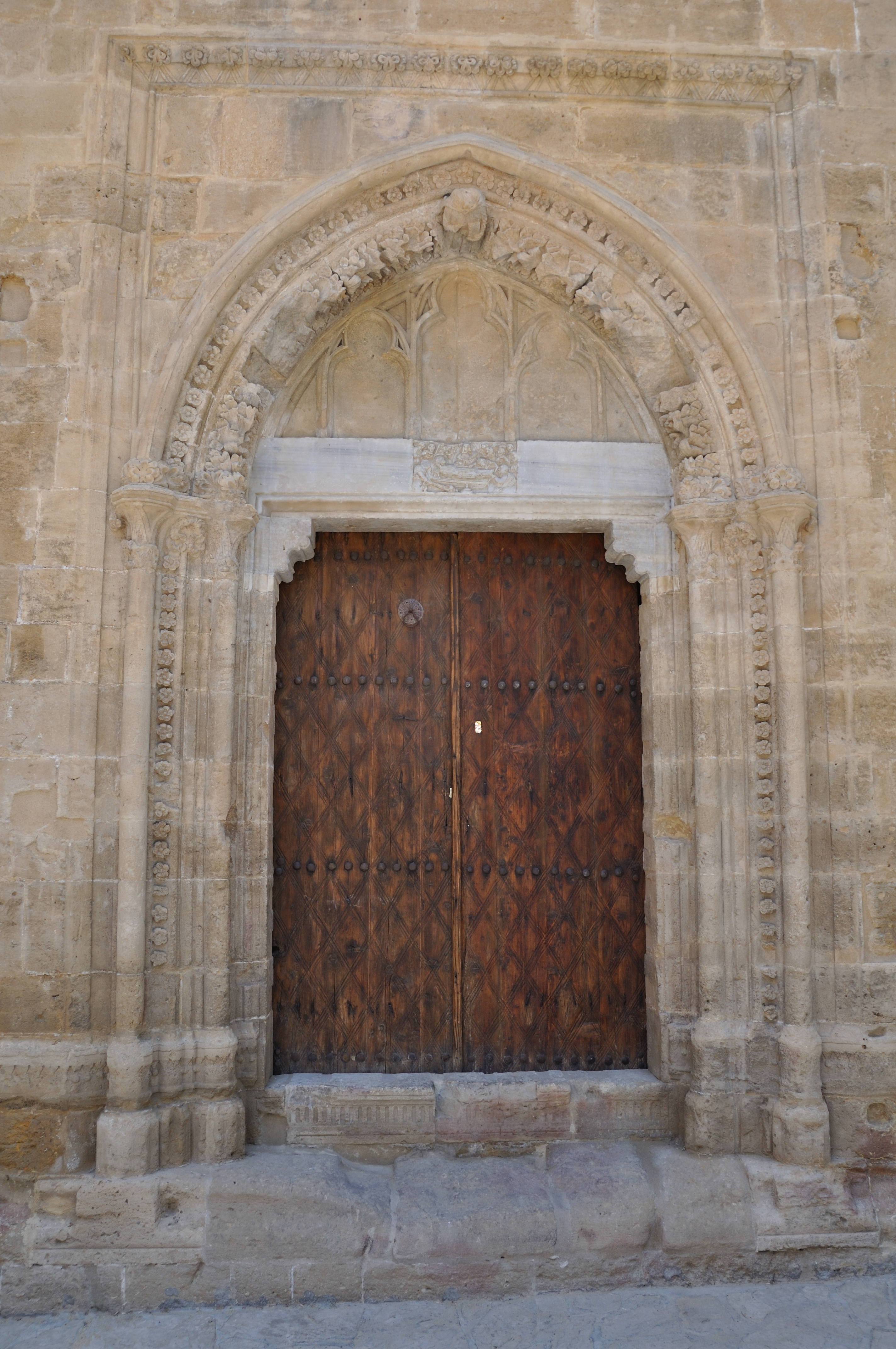 Cyprus, views of Nicosia